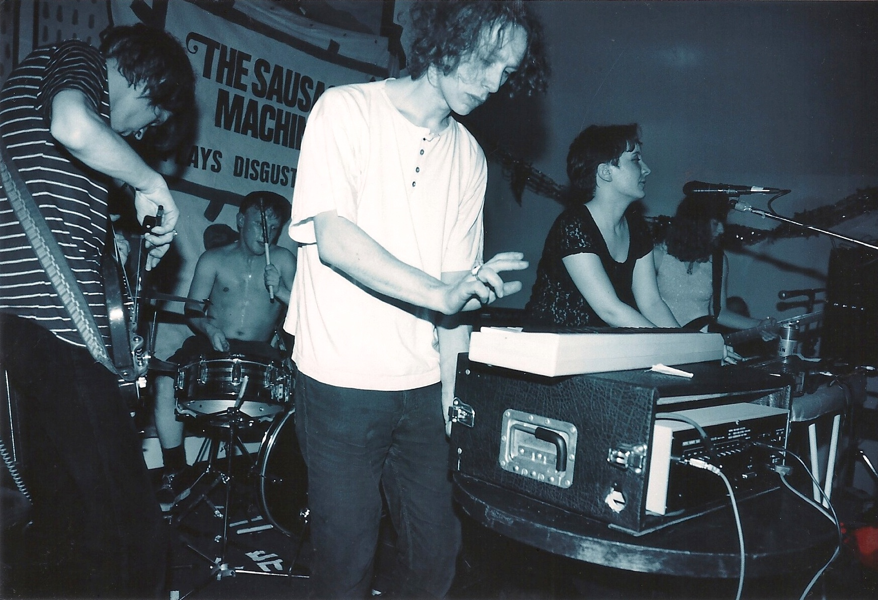 Pram performing in 1994 at Camden Irish Center, London